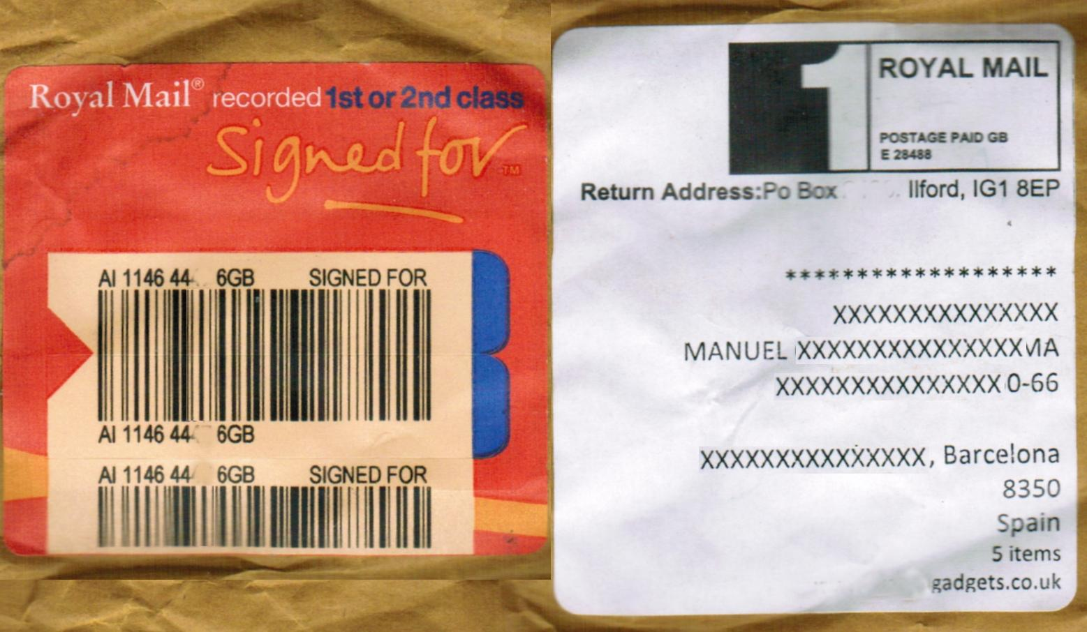 Label&stamp for an international signed-for service offered by the Royal Mail